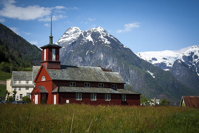 Fjærland kyrkje, local church in Mundal, Sogn og Fjordane.